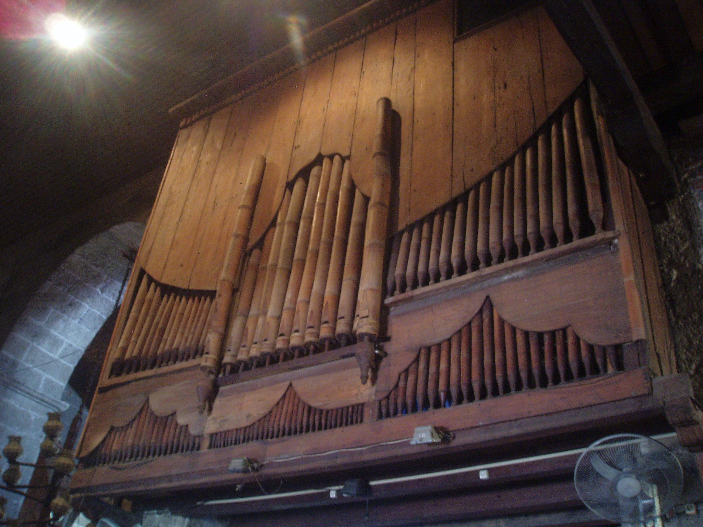 The back side of the bamboo organ in Saint Joseph Parish Church, Las Piñas, Metro Manila, Philippines